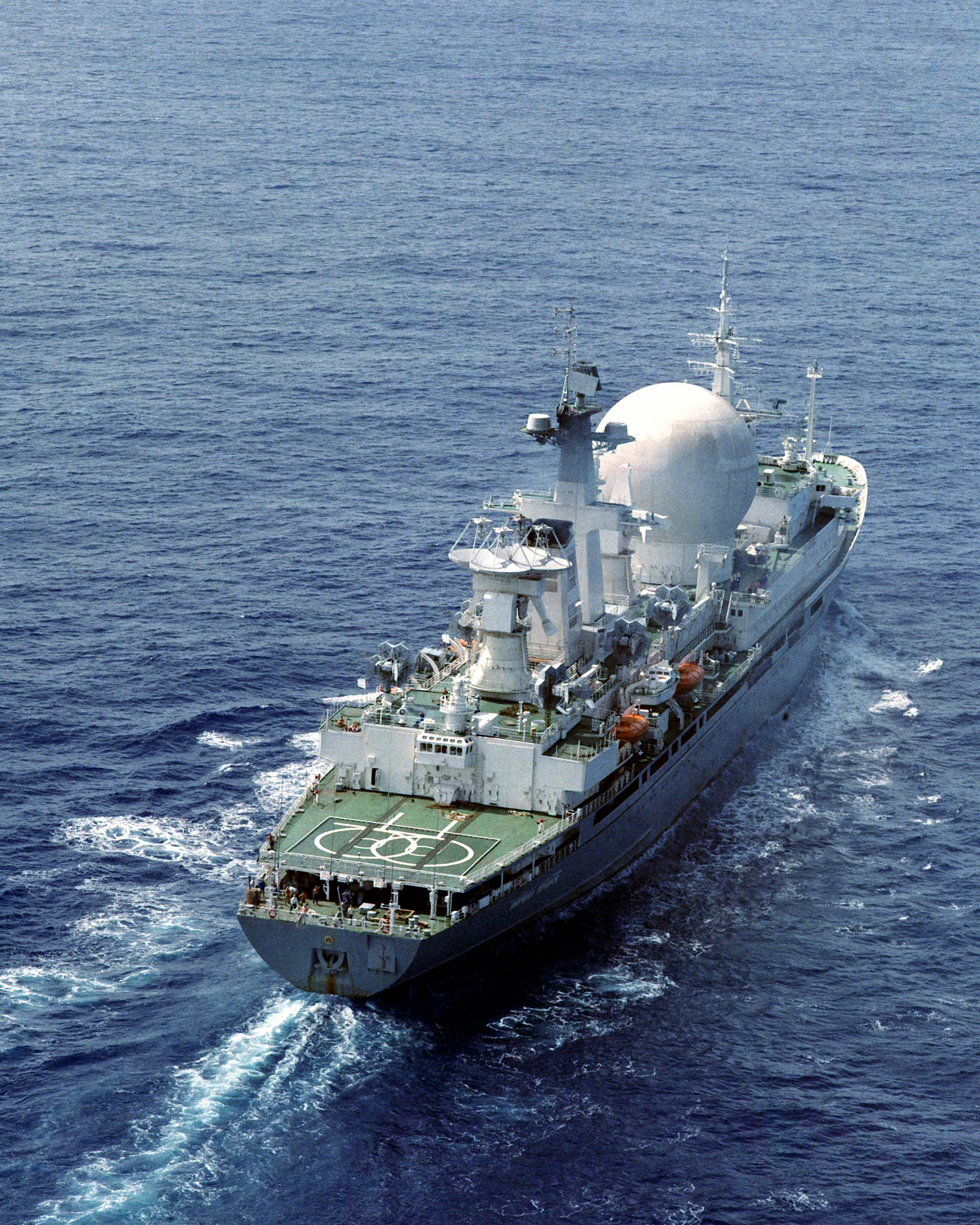 A starboard quarter view of the Soviet Marshal Nedelin class naval missile range ship MARSHAL KRYLOV underway.